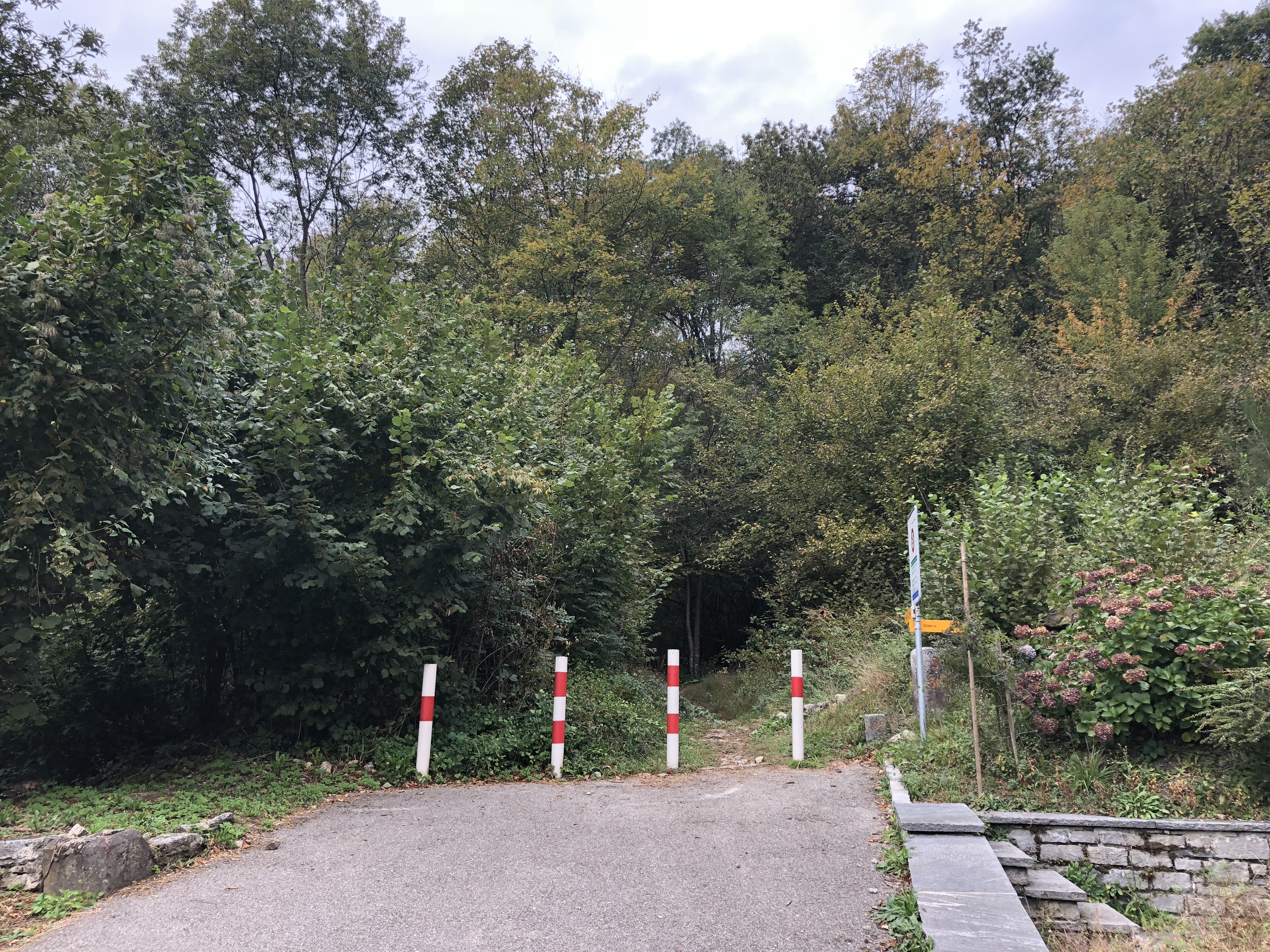 Astano: Border crossing to Italy